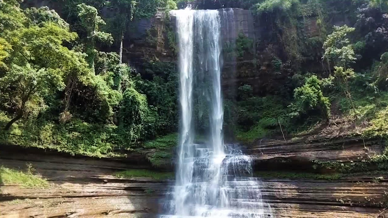 Dhuppani waterfall top section